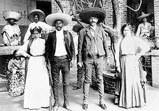 Promotional photo of 1950 Argentine film Abuso de confianza.